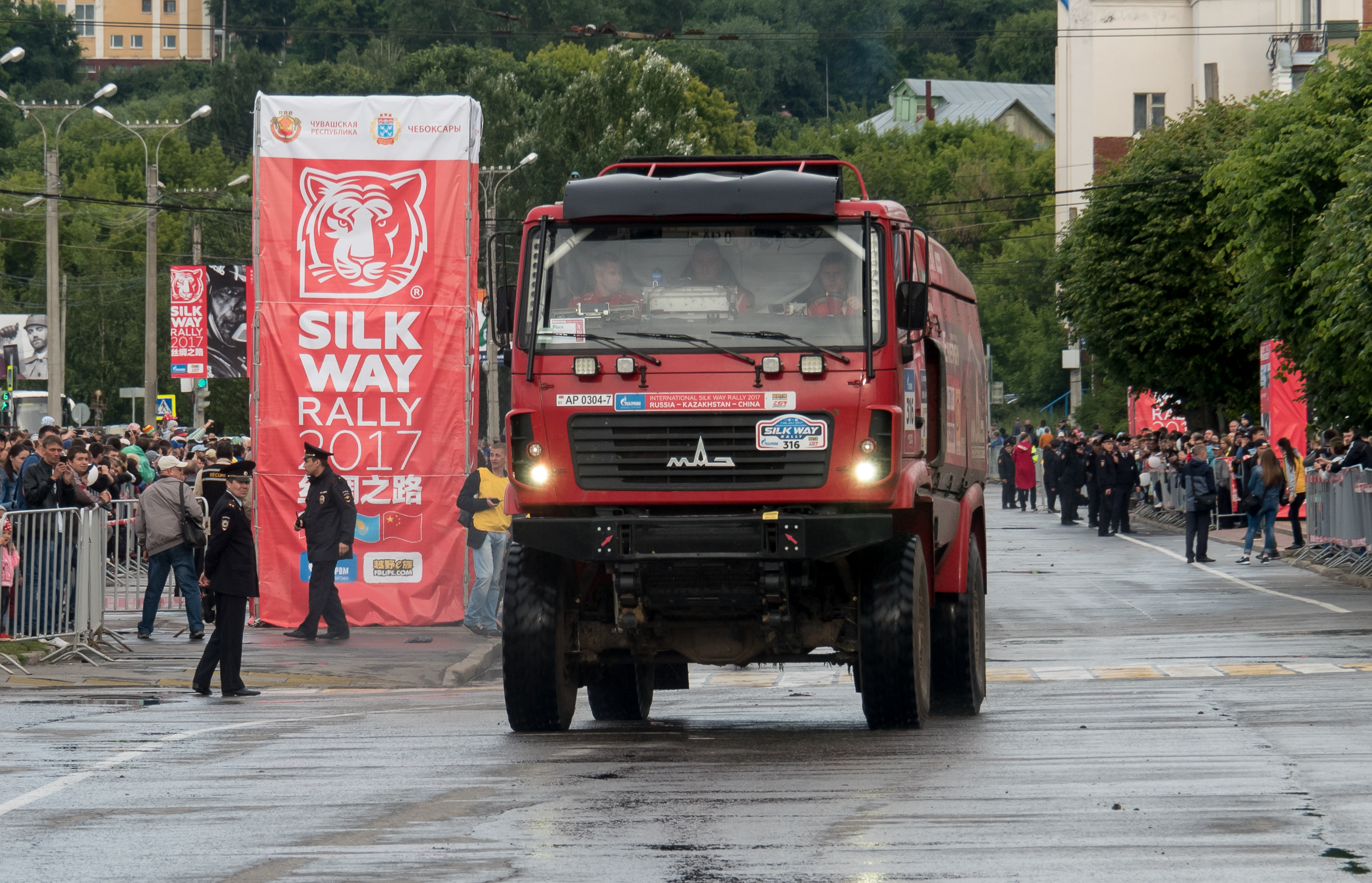 Truck #316. Silk Way Rally-2017. MAZ-SPORTauto.